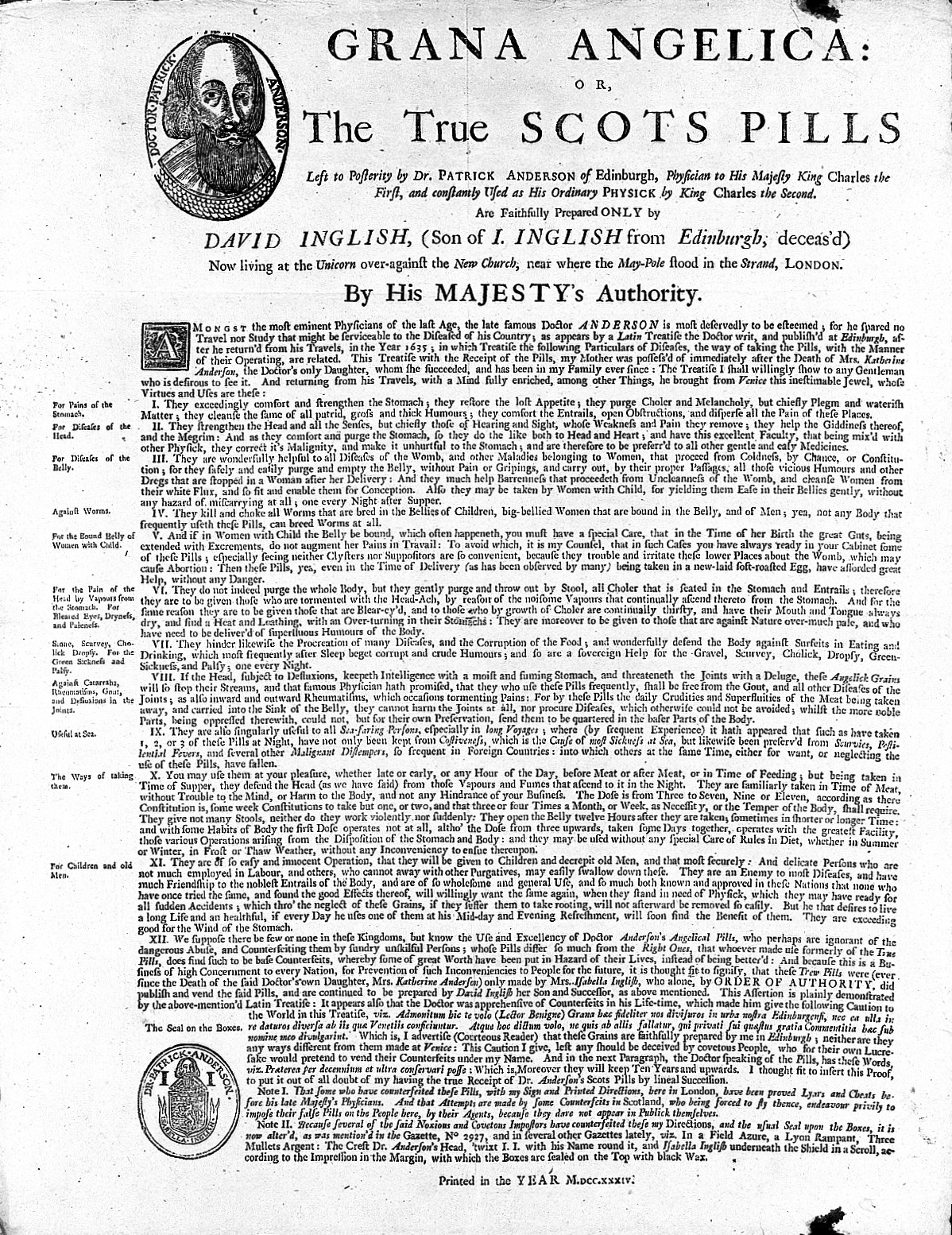 Broadsheet, text advertising 'Grana angelica' or 'the true Scots pills', said to have been brought from Venice by Patrick Anderson, circa 1635. Iconographic Collections Keywords: Patrick Anderson; David Inglish